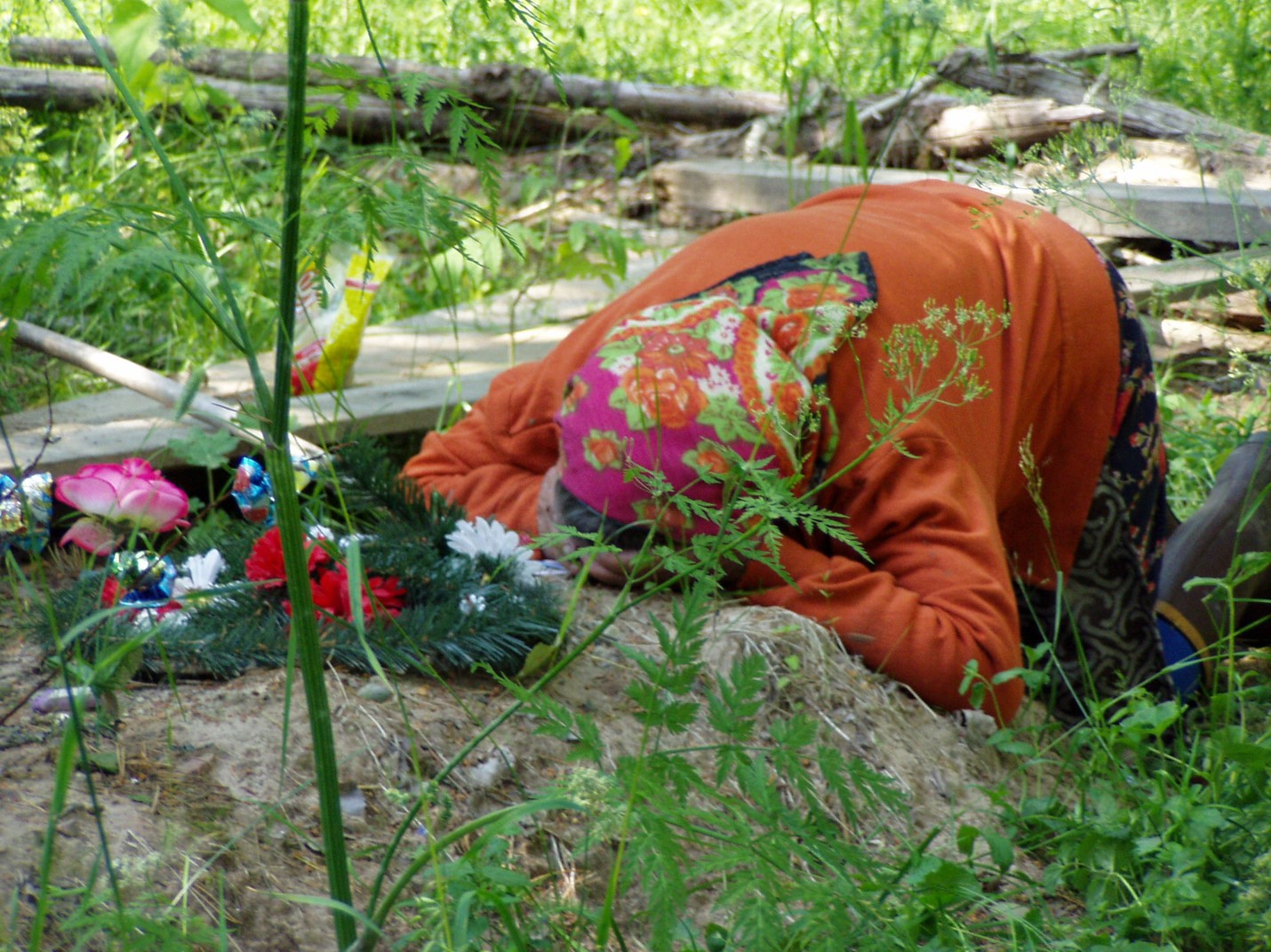 Vepsian woman lamenting; SE Karelia, 2005